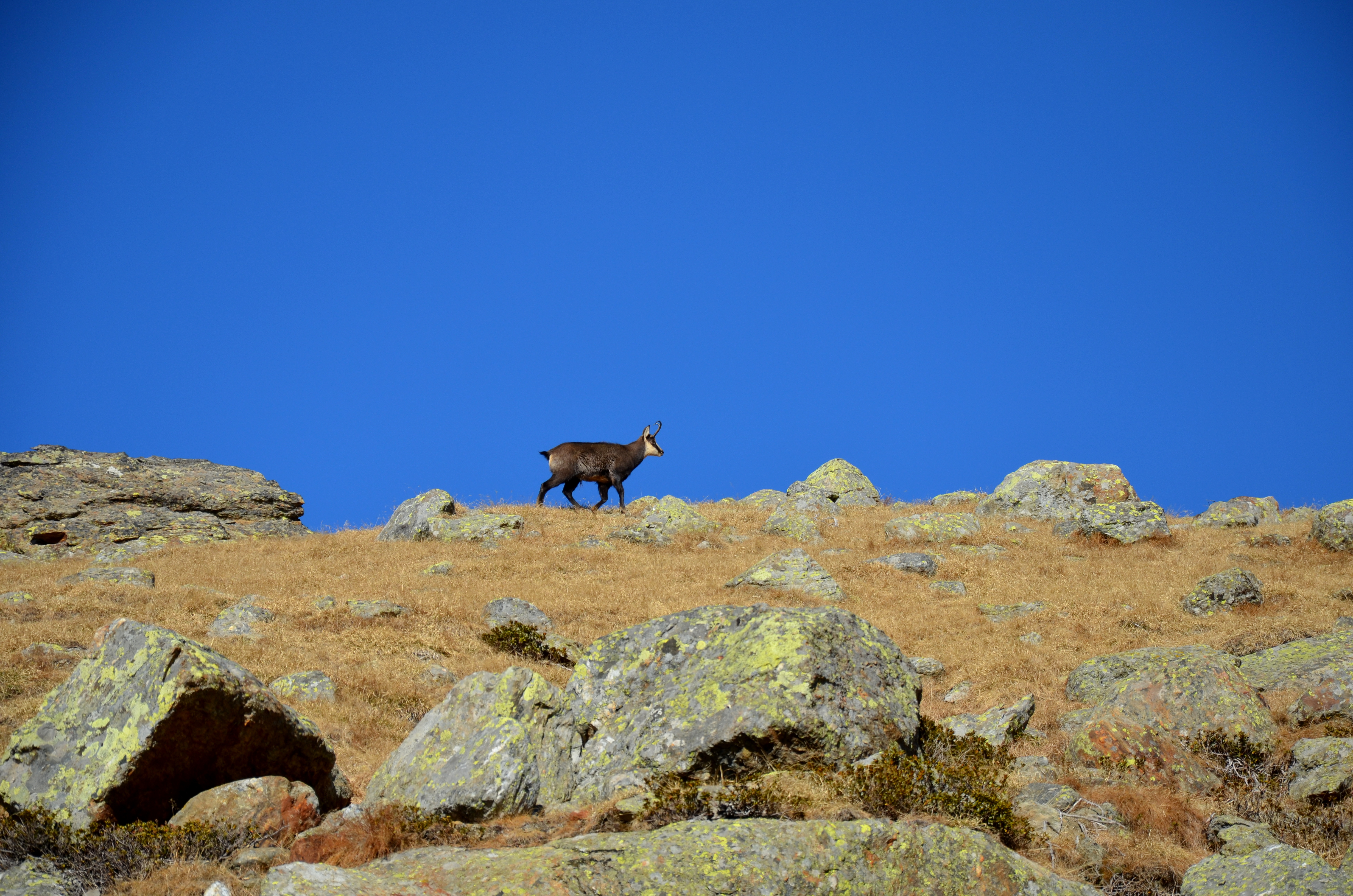 Chamois (Rupicapra Rupicapra) in the Stelvio National Park (IT).